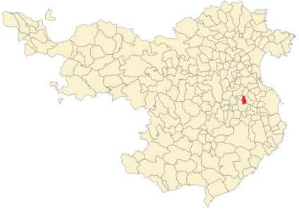 Jafre